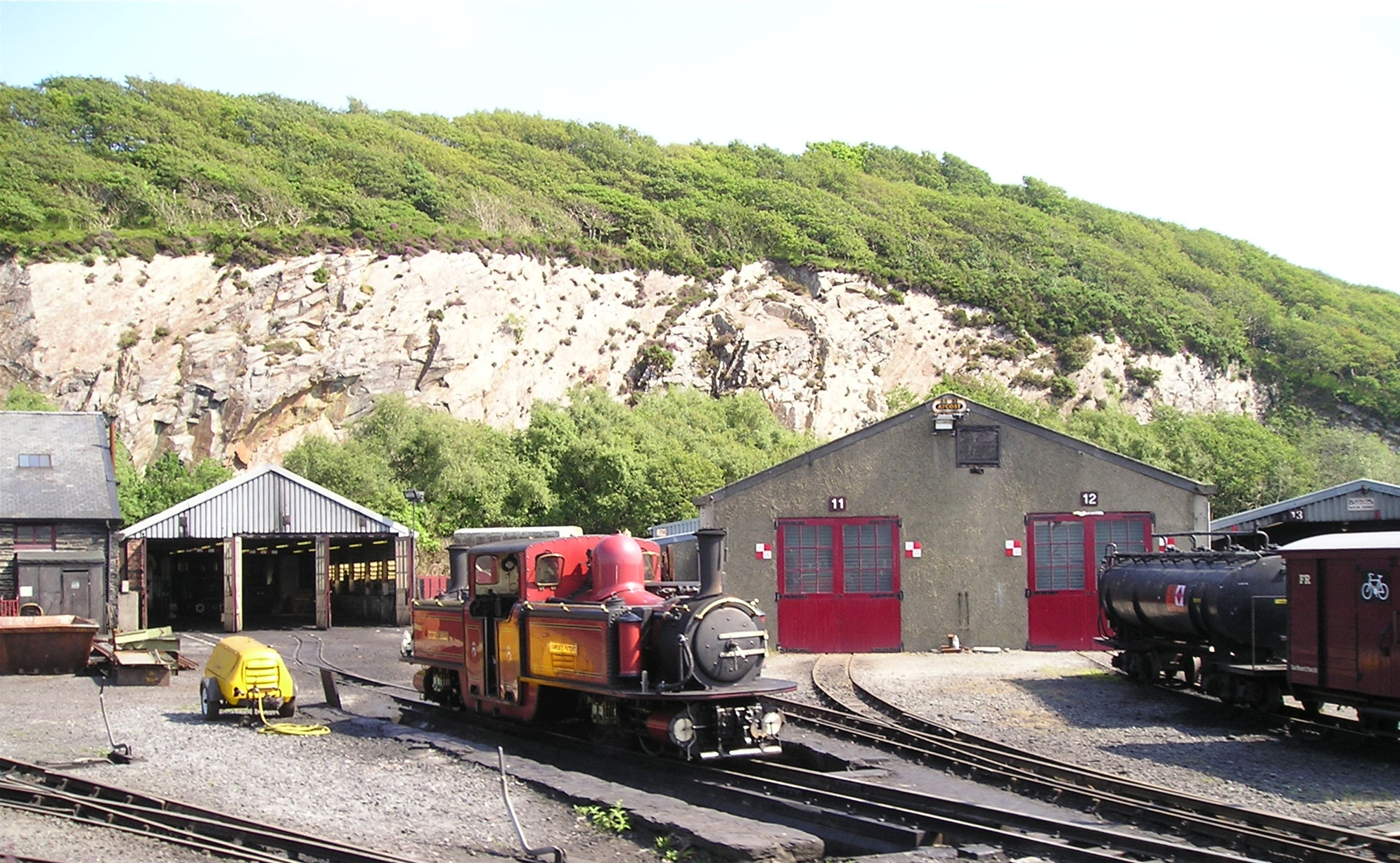 The locomotive David Lloyd George sits at Boston Lodge works on the Ffestiniog Railway.